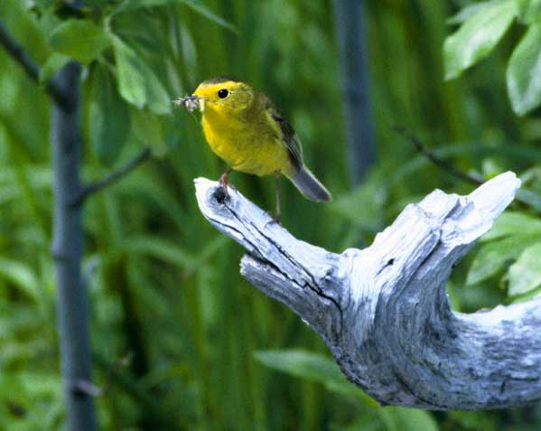 Wilson's Warbler photographed on Kodiak Island